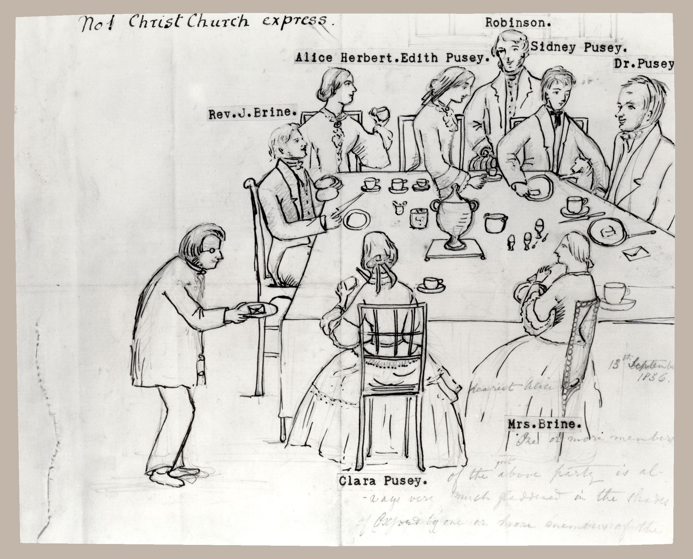 Edward Bouverie Pusey with his family at breakfast, by Clara Pusey (floruit 1856). All images in this batch have a known author with unknown death date, but according to the NPG's website the author was floruit (known to be active) prior to 1859, and so is reasonably presumed dead by 1939.